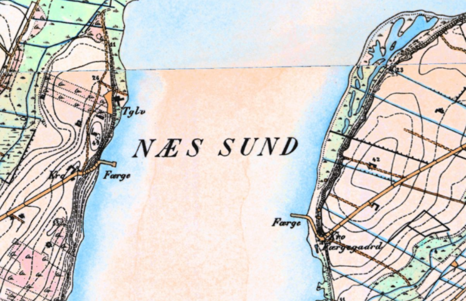 Næssund ferry in 19th Century